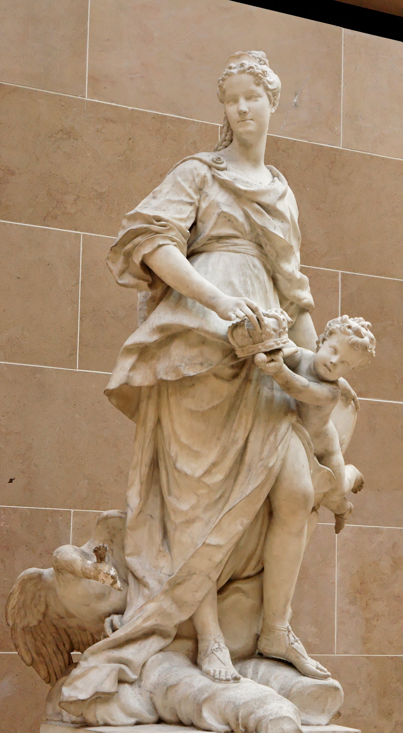 Maria Leszczyńska as Juno. Commissioned in 1725 by the Duke of Antin, head of the French Batiments, for his castle of Petit-Bourg. Marble, 1731.